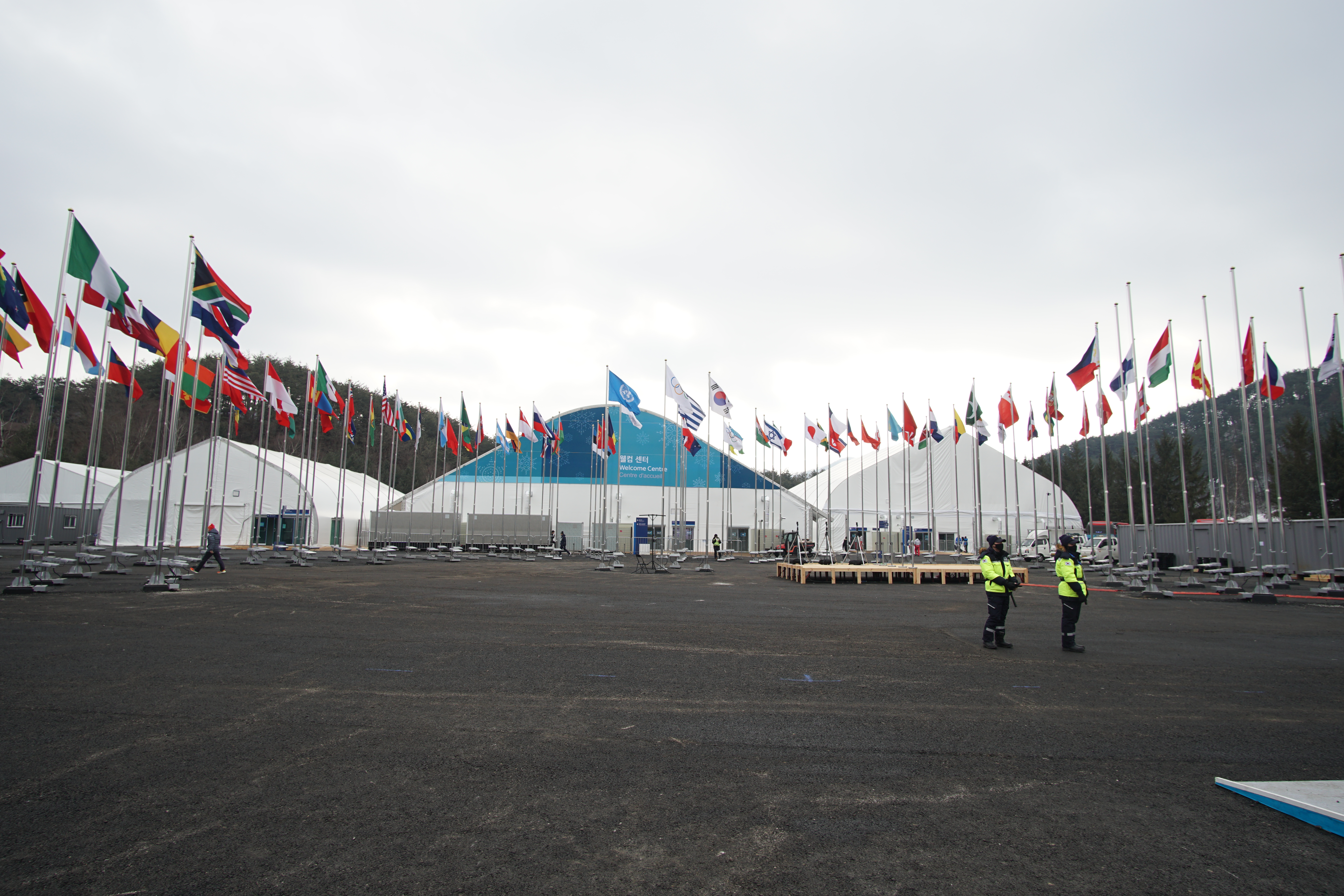 Welcome centre of Pyeongchang 2018